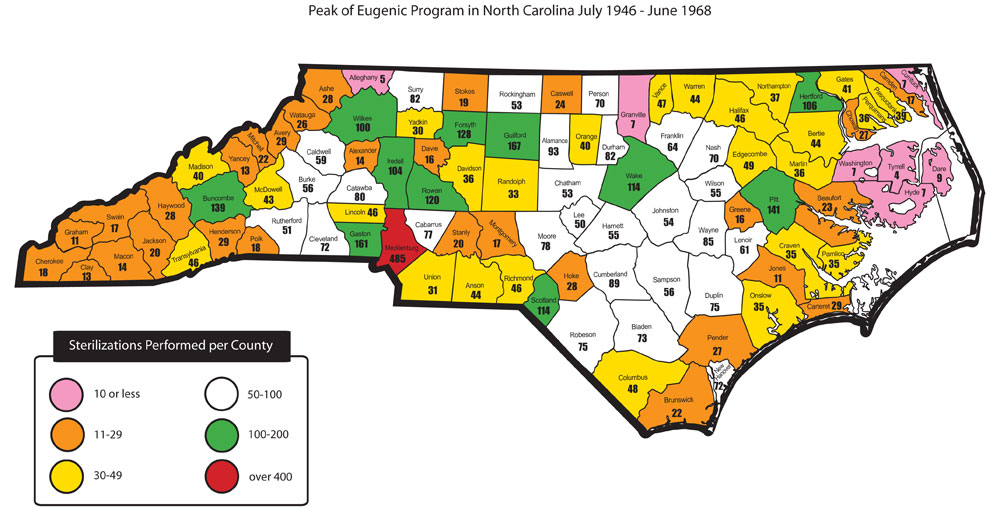 This is a 2012 government document put out by the Governor's Office of North Carolina addressing the impact of the North Carolina Eugenics Board and Sterilization as part of their executive order and public document